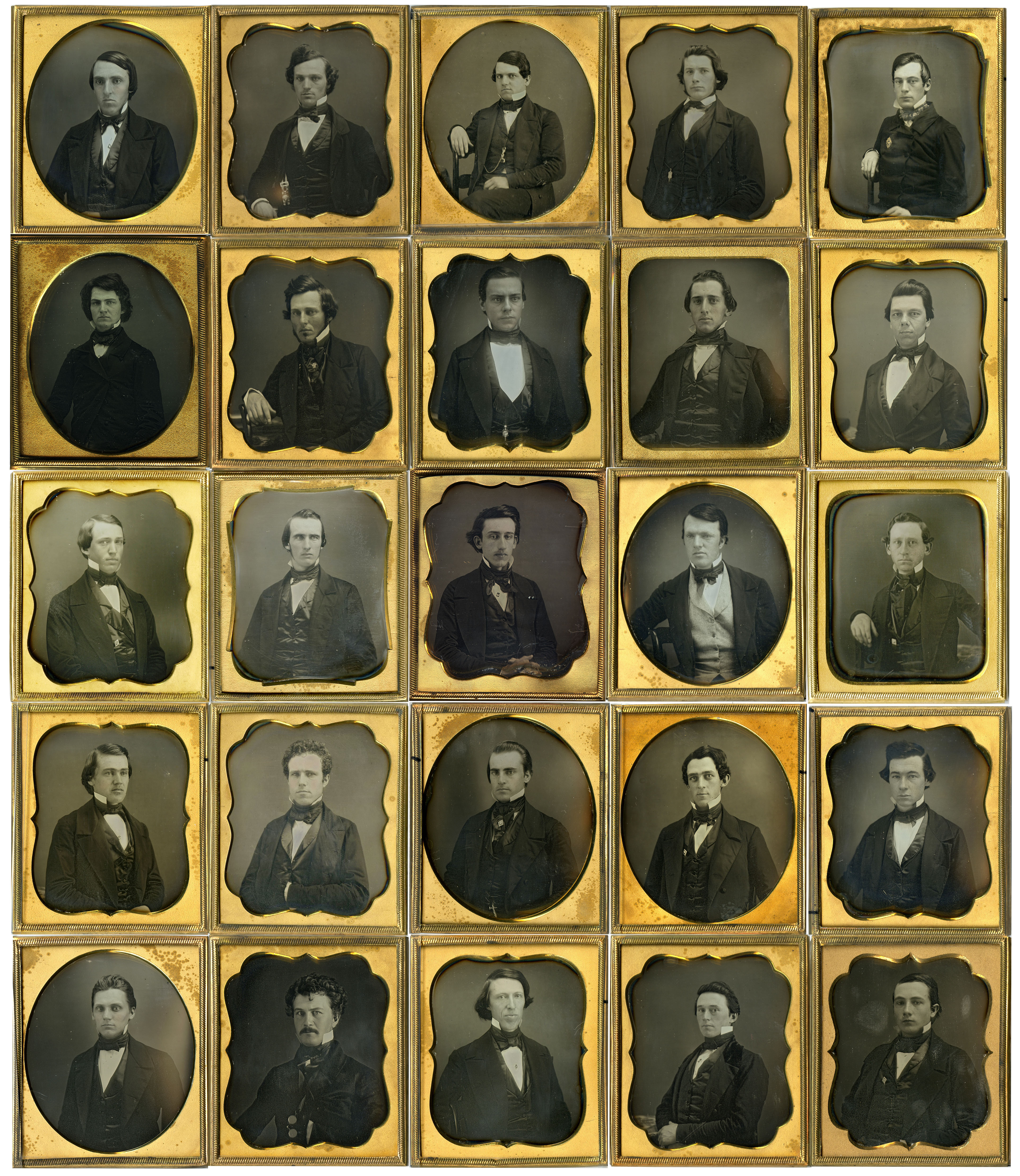 Left to right, top to bottom: William Fisher Avery (1826-1903) Albert Graham Beebe (1826-1899) Henry Walker Bishop (1829-1913) John Edwin Cory (1825-1865) Minott Sherman Crosby (1829-1897) William Austin Dickinson (1829-1895) John Graeme Ellery (1824-1855) Daniel Worcester Faunce (1829-1911) Thomas Legare Fenn (1830-1912) Edmund Young Garrette (1823-1902) Augustine Milton Gay (1827-1876) Archibald Falconer Gilbert (1825-1866) George Henry Gould (1827-1899) James John Howard Gregory (1827-1910) Leicester Porter Hodge (1828-1851) George Howland (1824-1892) Jacob Merrill Manning (1824-1882) Jeremiah Lemuel Newton (1824-1883) Joseph Nickerson (1828-1882) David Temple Packard (1824-1880) Sylvester John Sawyer (1823-1884) Henry Shipley (1825-1859) Thomas Morrill Stimpson (1827-1898) John Howland Thompson (1827-1891) Lyman Richards Williston (1830-1897)